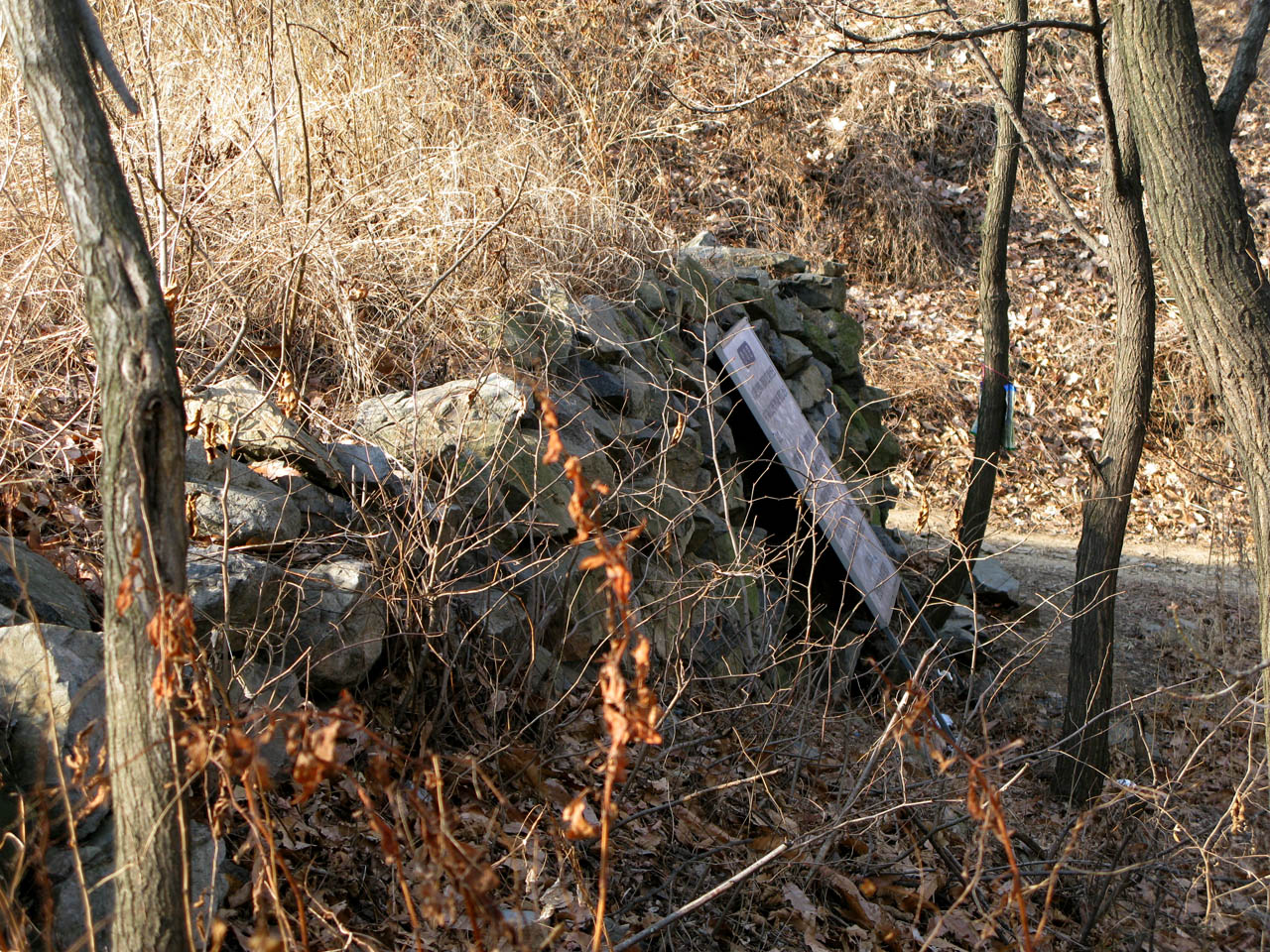 Gyeyang Mountain Castle